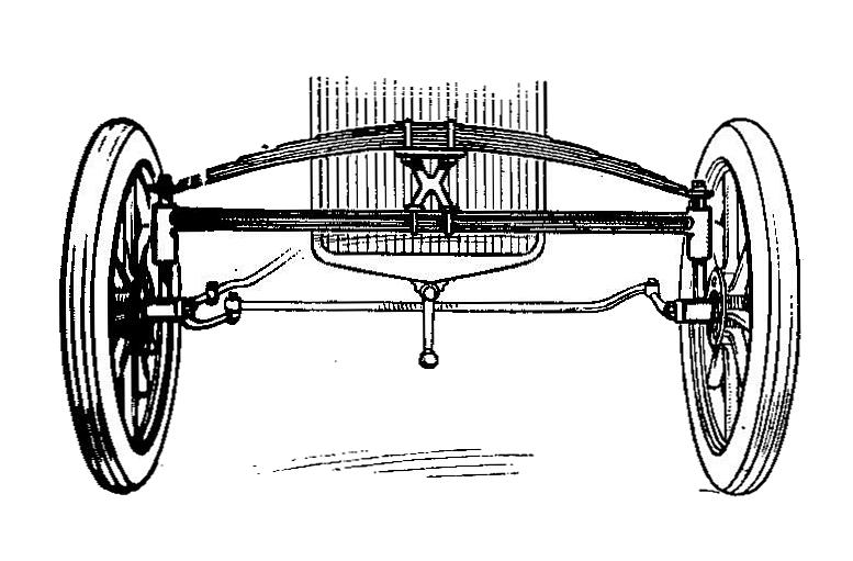 Sliding pillar suspension, early Sizaire-Naudin cars Independent front suspension by vertical movement along a sliding pillar.